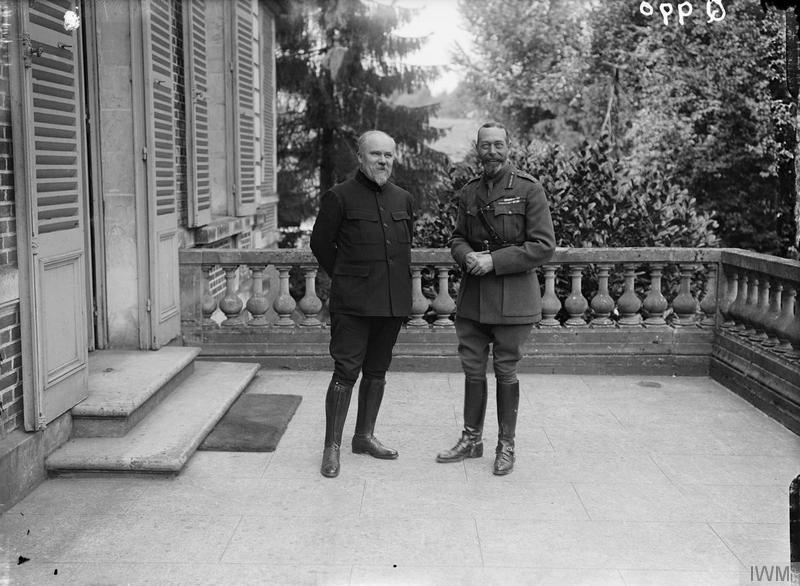 The Battle of the Somme, July-november 1916 King George V and French President Raymond Poincare at Chateau Val Vion, Beauquesne, 12th August 1916.